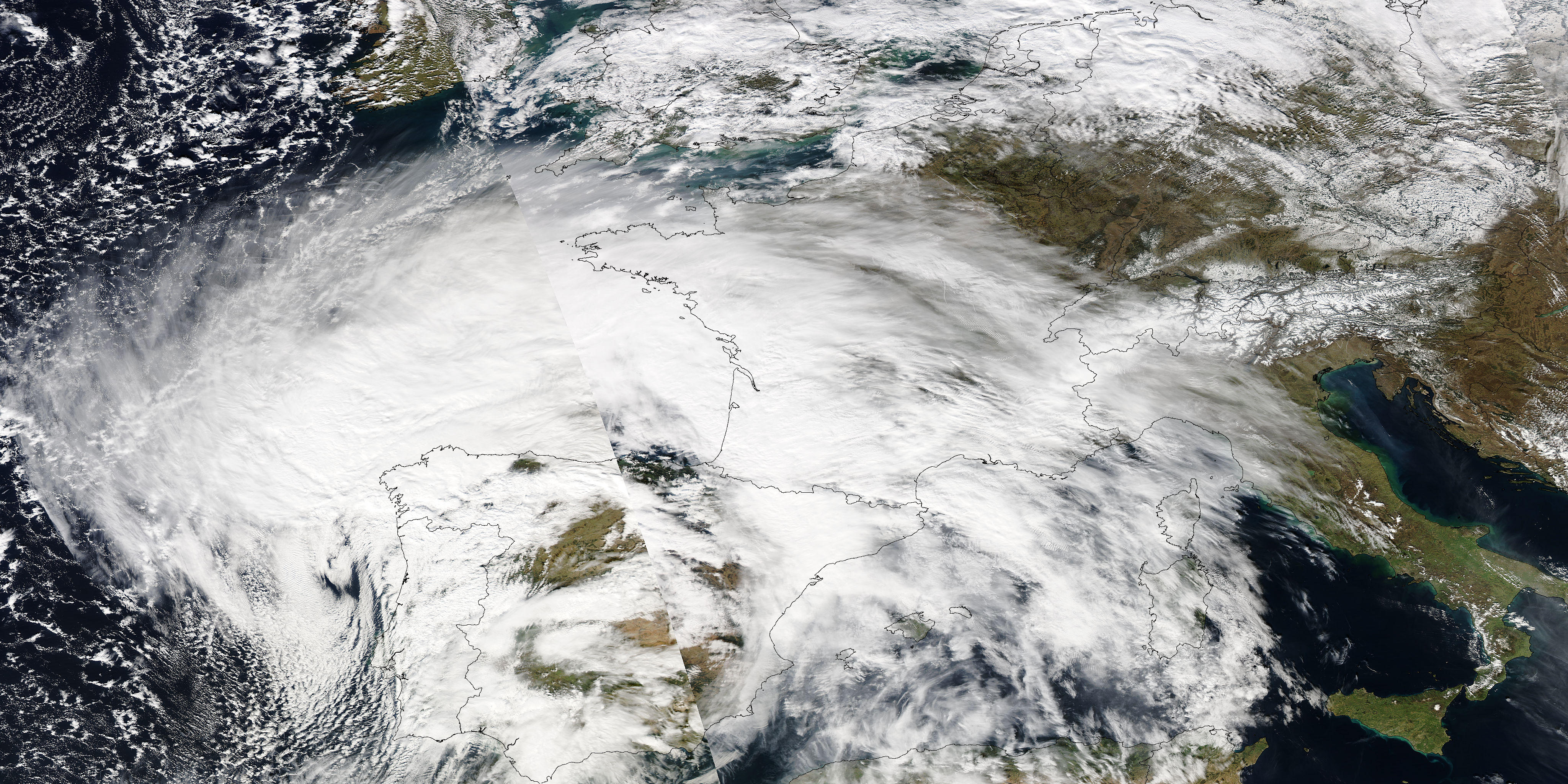 An extratropical cyclone named Xynthia brought hurricane-force winds and high waves to Western Europe at the end of February 2010, CNN reported. Winds as fast as 200 kilometers (125 miles) per hour reached as far inland as Paris, and at the storm’s peak, hurricane-force winds extended from Portugal to the Netherlands. Hundreds of people had to take refuge from rising waters on their rooftops. By March 1, at least 58 people had died, some of them struck by falling trees. Most of the deaths occurred in France, but the storm also caused casualties in England, Germany, Belgium, Spain, and Portugal. The Moderate Resolution Imaging Spectroradiometer (MODIS) on NASA’s Aqua satellite captured this image of Western Europe, acquired in two separate overpasses on February 27, 2010. MODIS captured the eastern half of the image around 10:50 UTC, and the western half about 12:30 UTC. Forming a giant comma shape, clouds stretch from the Atlantic Ocean to northern Italy. This image has a resolution of 1 kilometer.